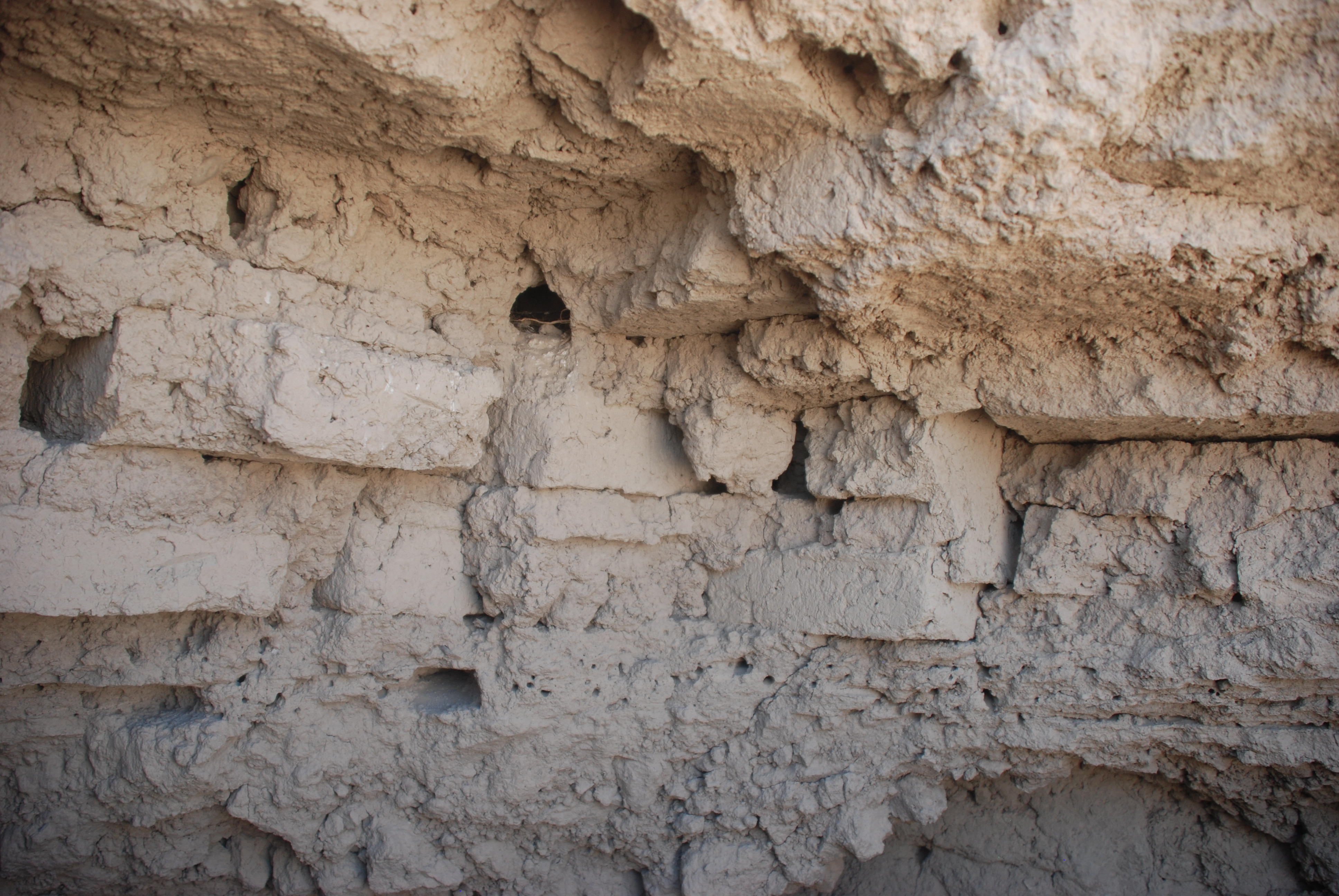 Balkin Tepe, Malard, Shahriyar, Tehran 19-09-2015